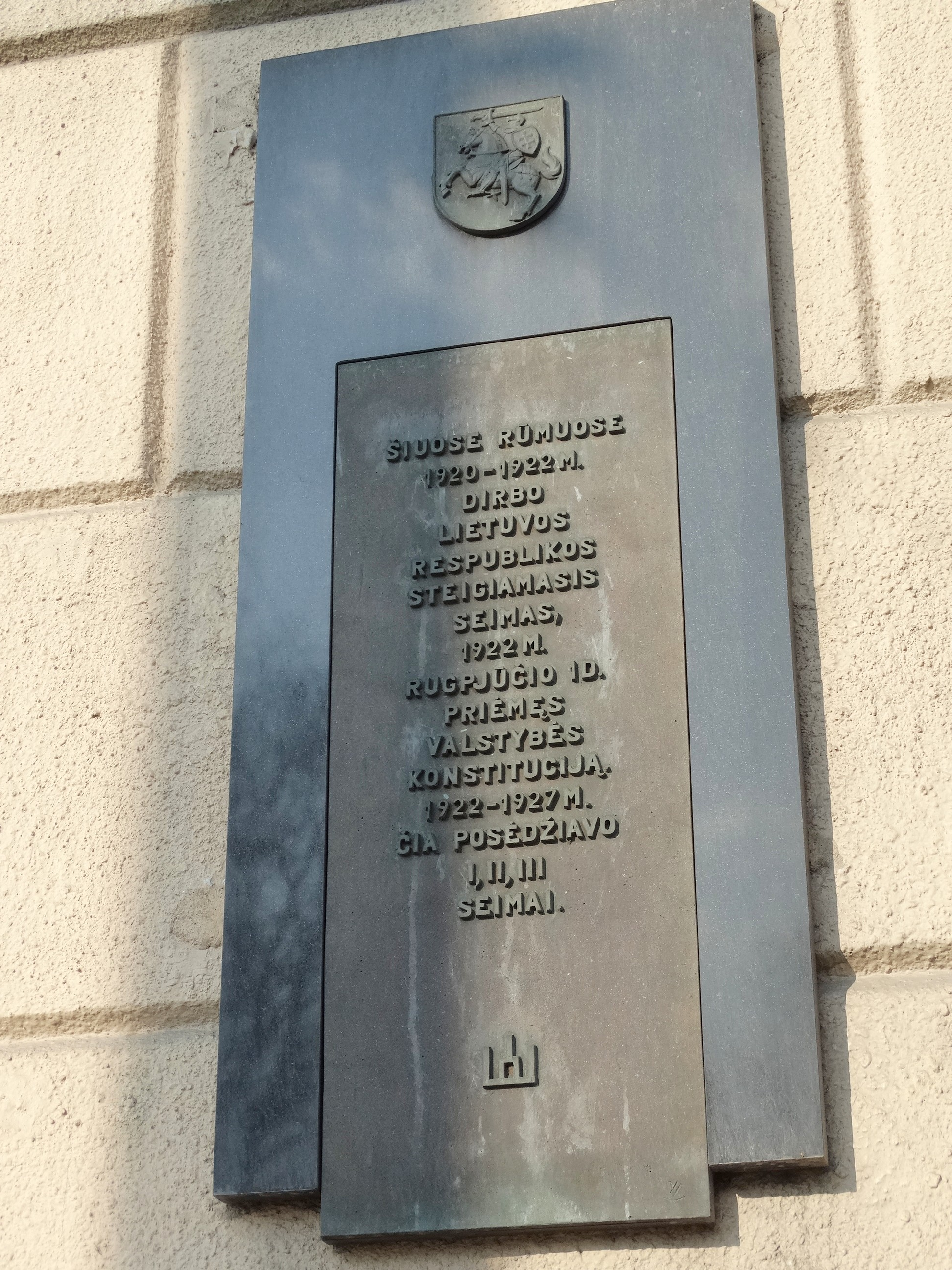 Commemorative plaque to Constituent Assembly of Lithuania, Kaunas